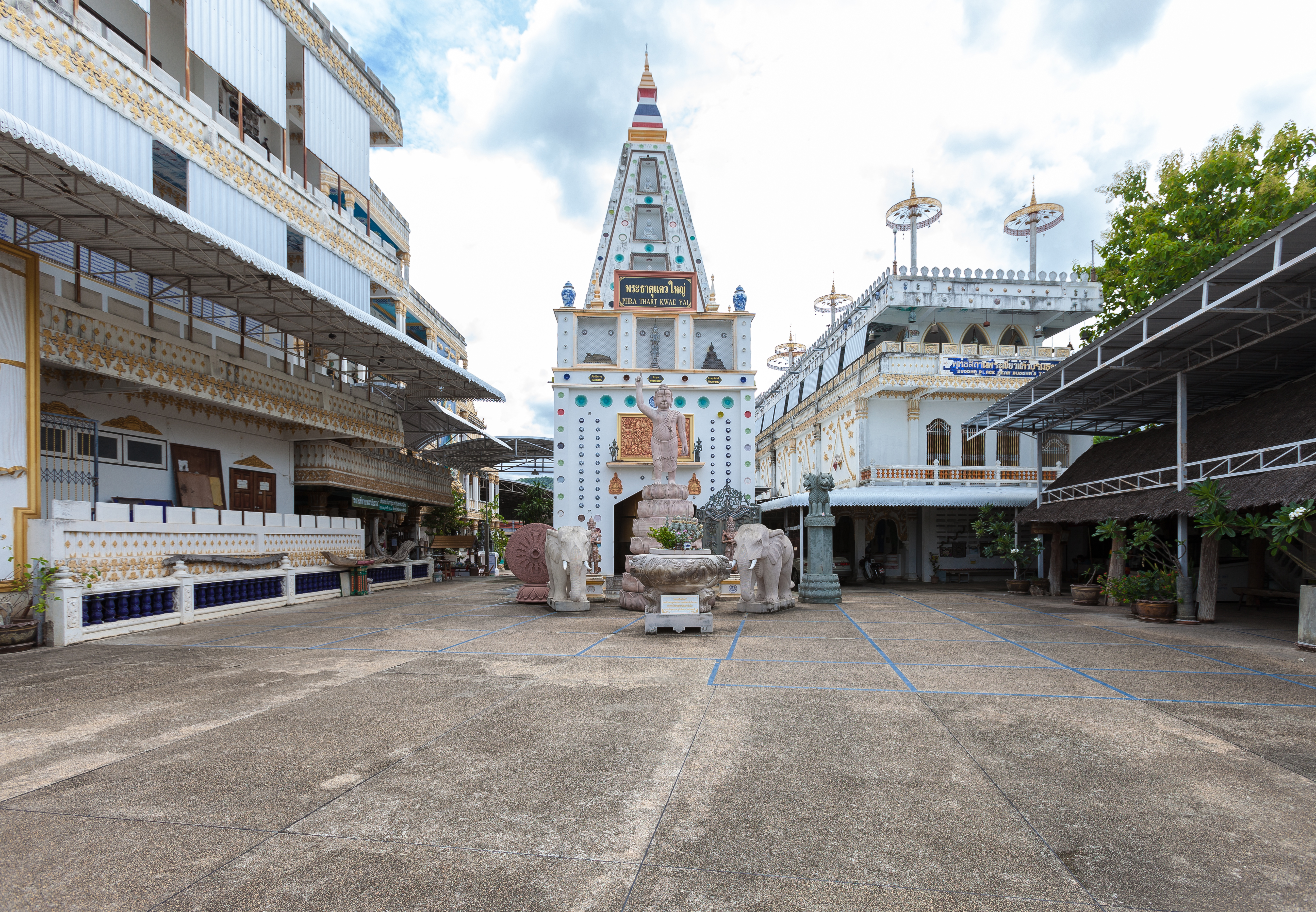 Kanchanaburi World War II Museum or JEATH museum.